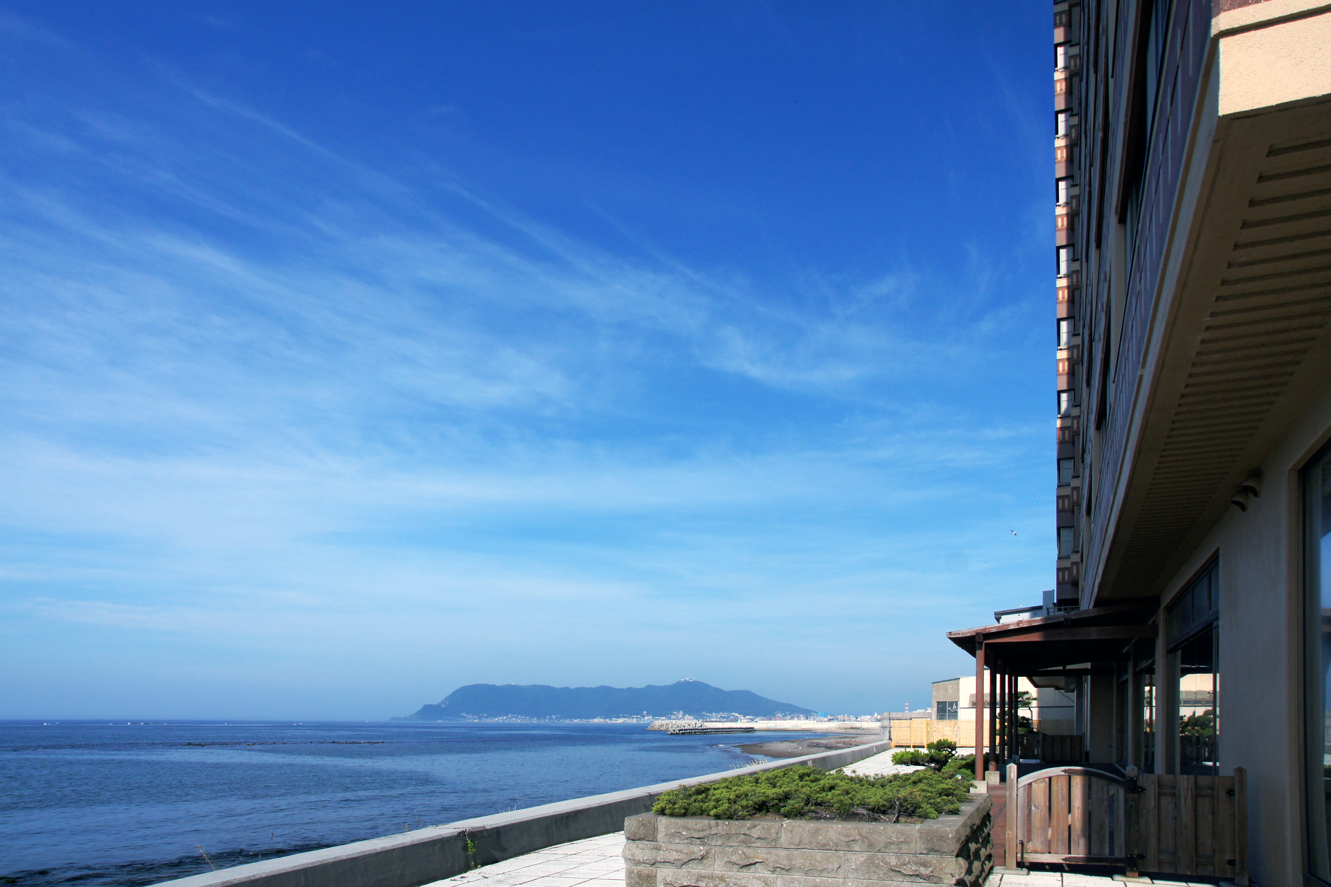 "Heiseikan Shiosaitei" in Yunokawa Onsen, Hakodate, Hokkaido prefecture, Japan